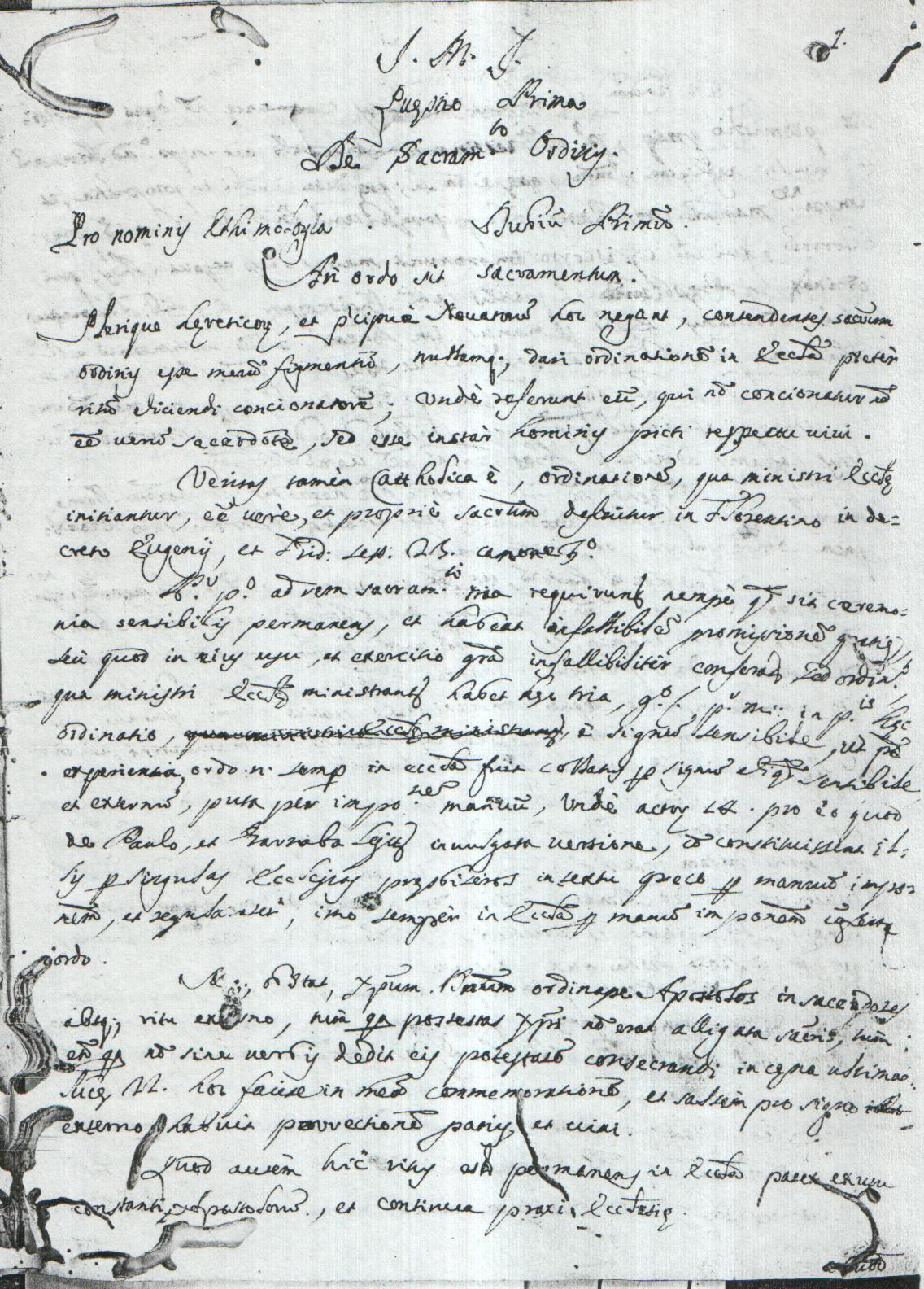 One of Jerome Leocata's philosophical manuscripts